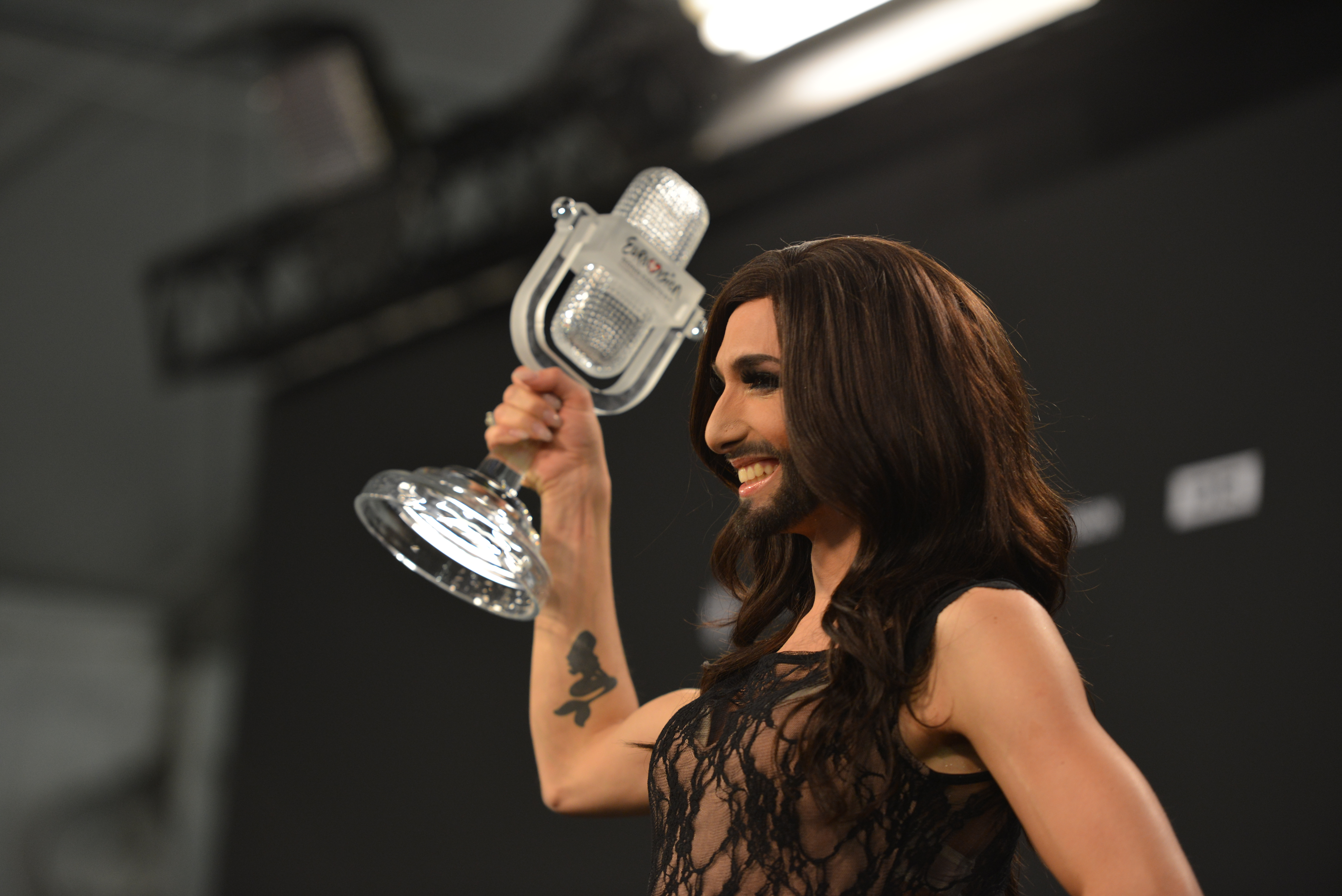 Conchita Wurst at the winners press conference, right after winning the Eurovision Song Contest 2014 Copenhagen. (Help translate this text)